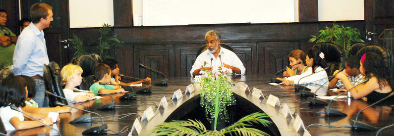 Dili International Students Meeting Prime Minister Mr. Xanana Gusmao in The Cabinet Room